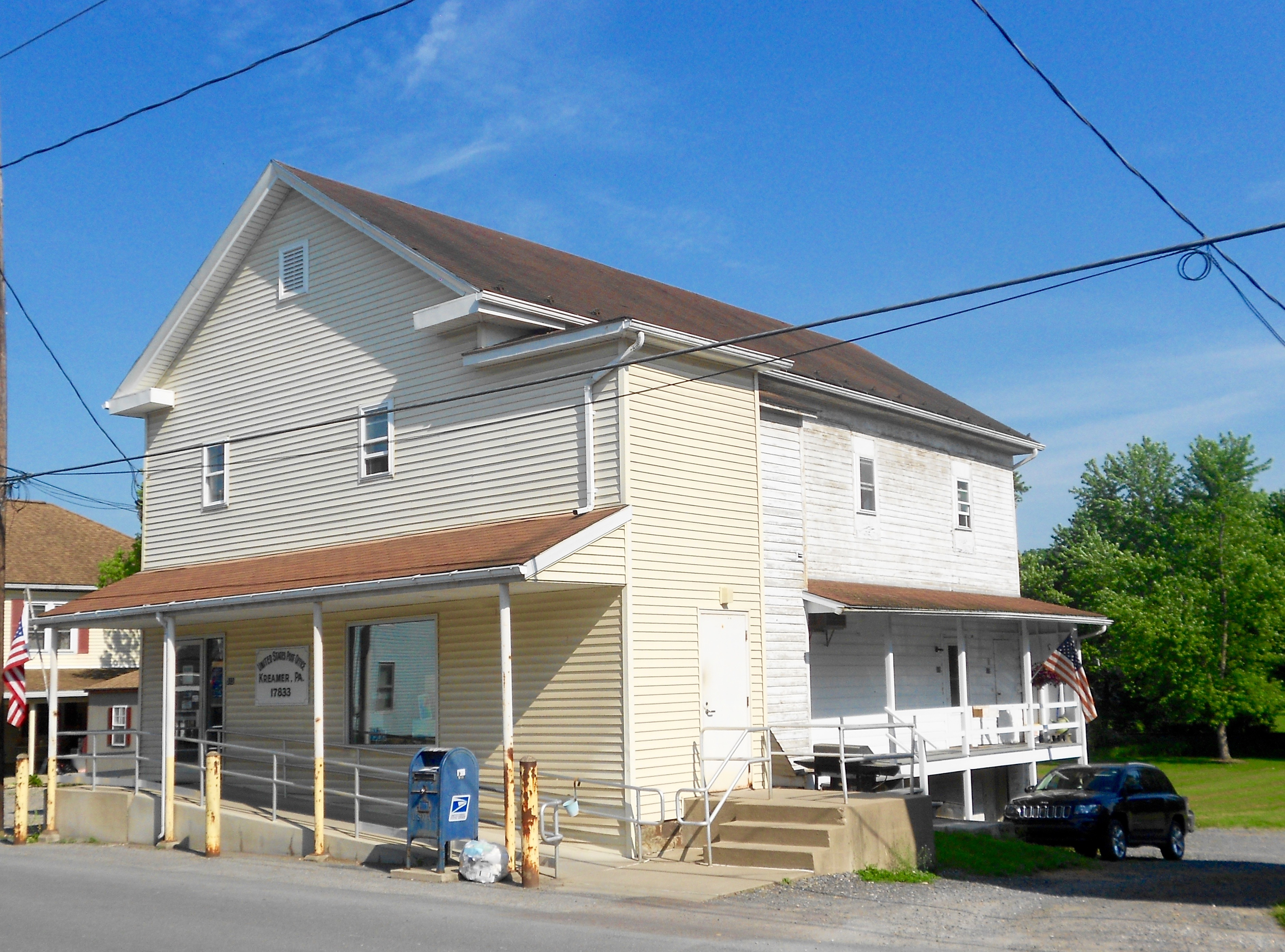 United States Post Office, zip code 17833, in Kreamer, Middlecreek Township, Snyder County, Pennsylvania